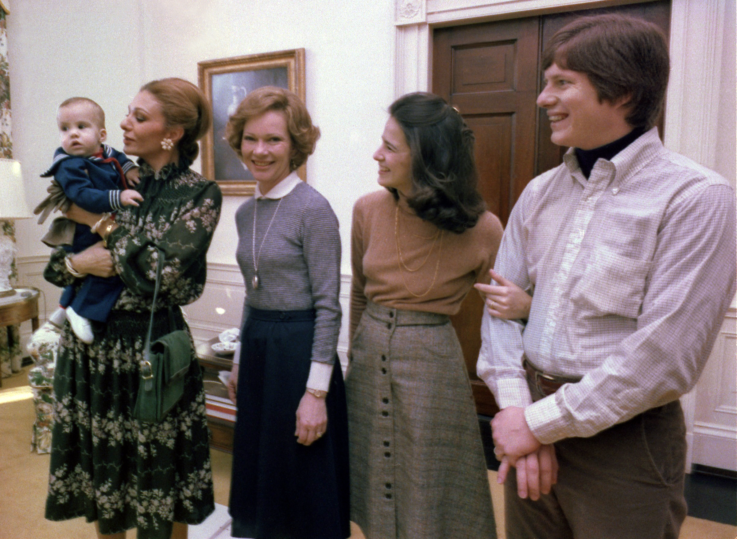 The Shahbanou of Iran holds Jimmy Carter IV while Rosalynn Carter, Caron Carter and Chip Carter watch.